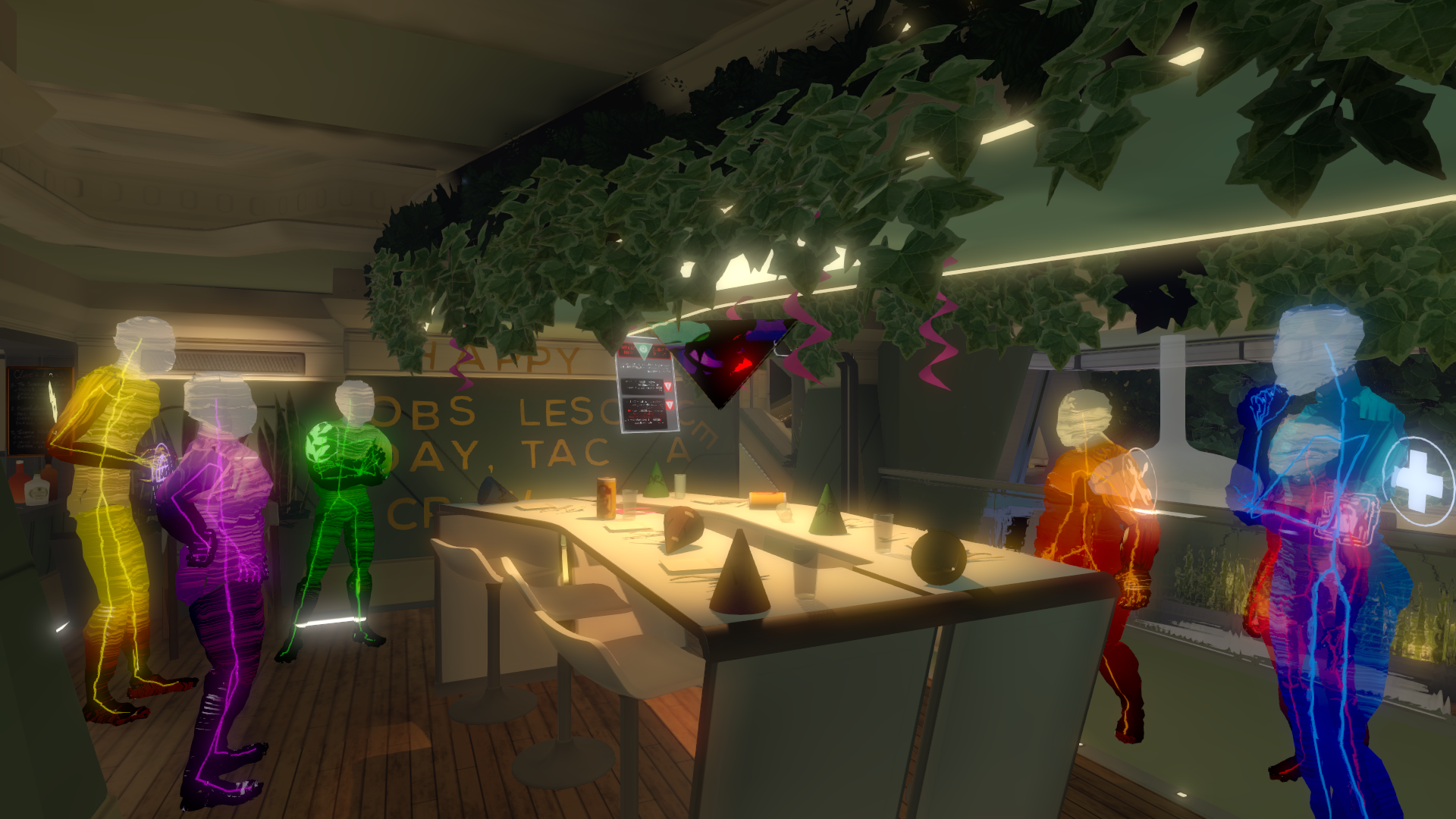 Tacoma screenshot of gameplay